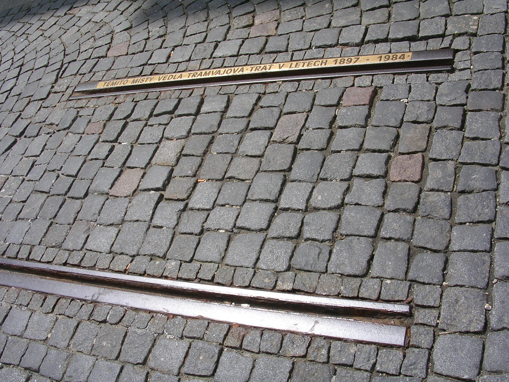 Liberec. The Czech Republic. - OpenStreetMap(Info)